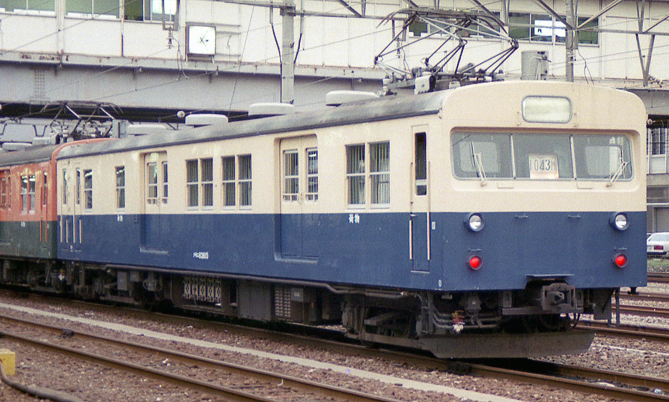 JNR Type KuMoNi 83 No.815 Electric Baggage Car at Himeji Station